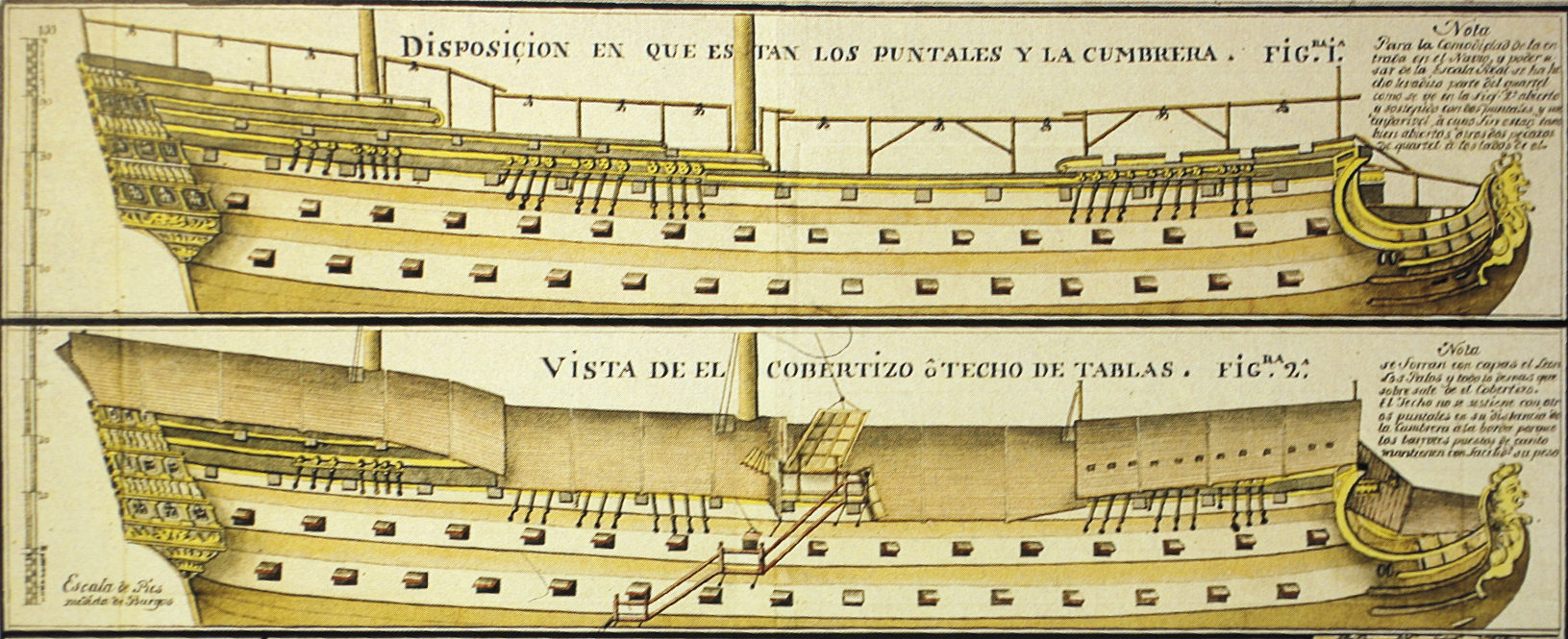 Plans of Spanish ship Santísima Trinidad, before conversion to four-decker